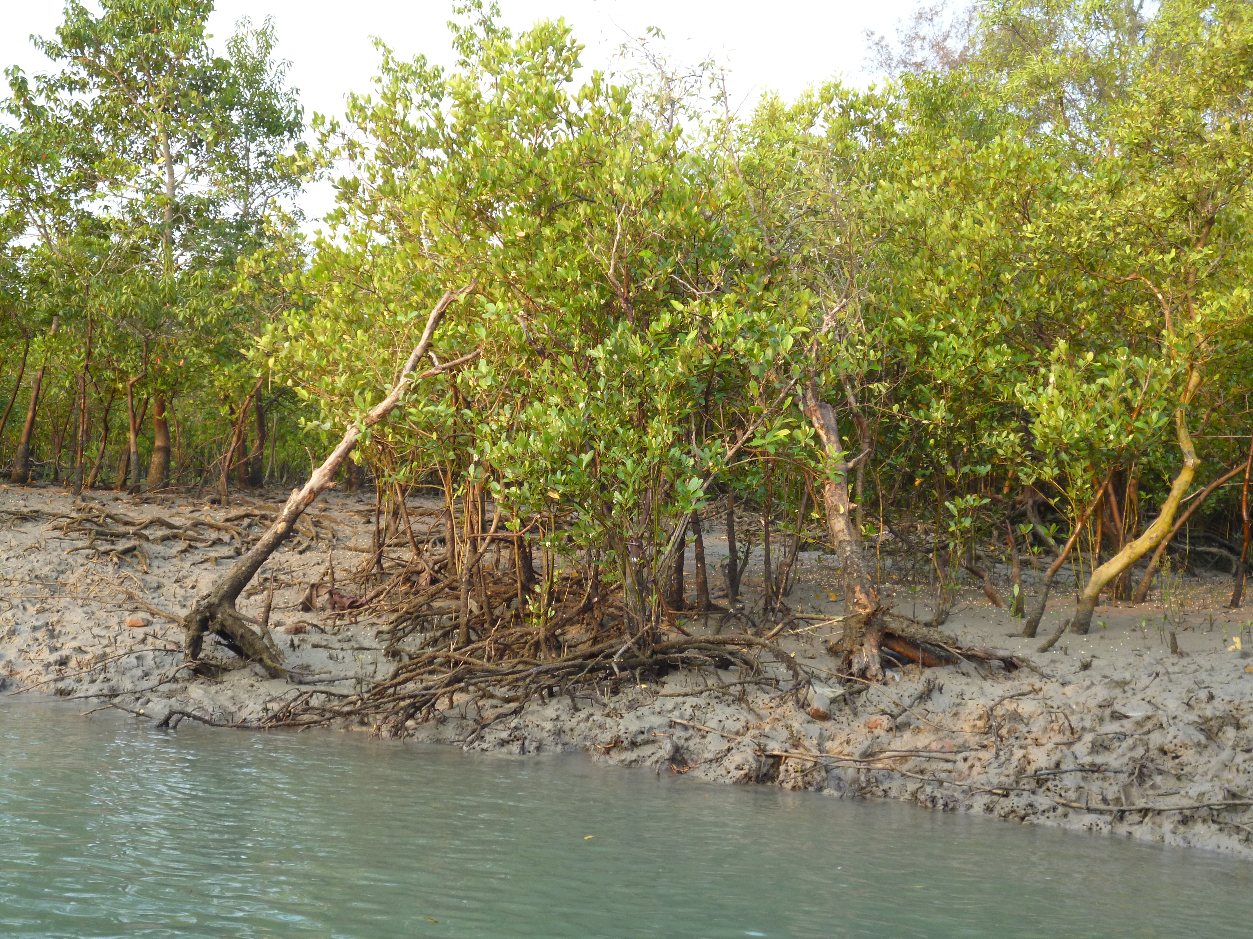 Beauty of the mangrove forest of sundarban